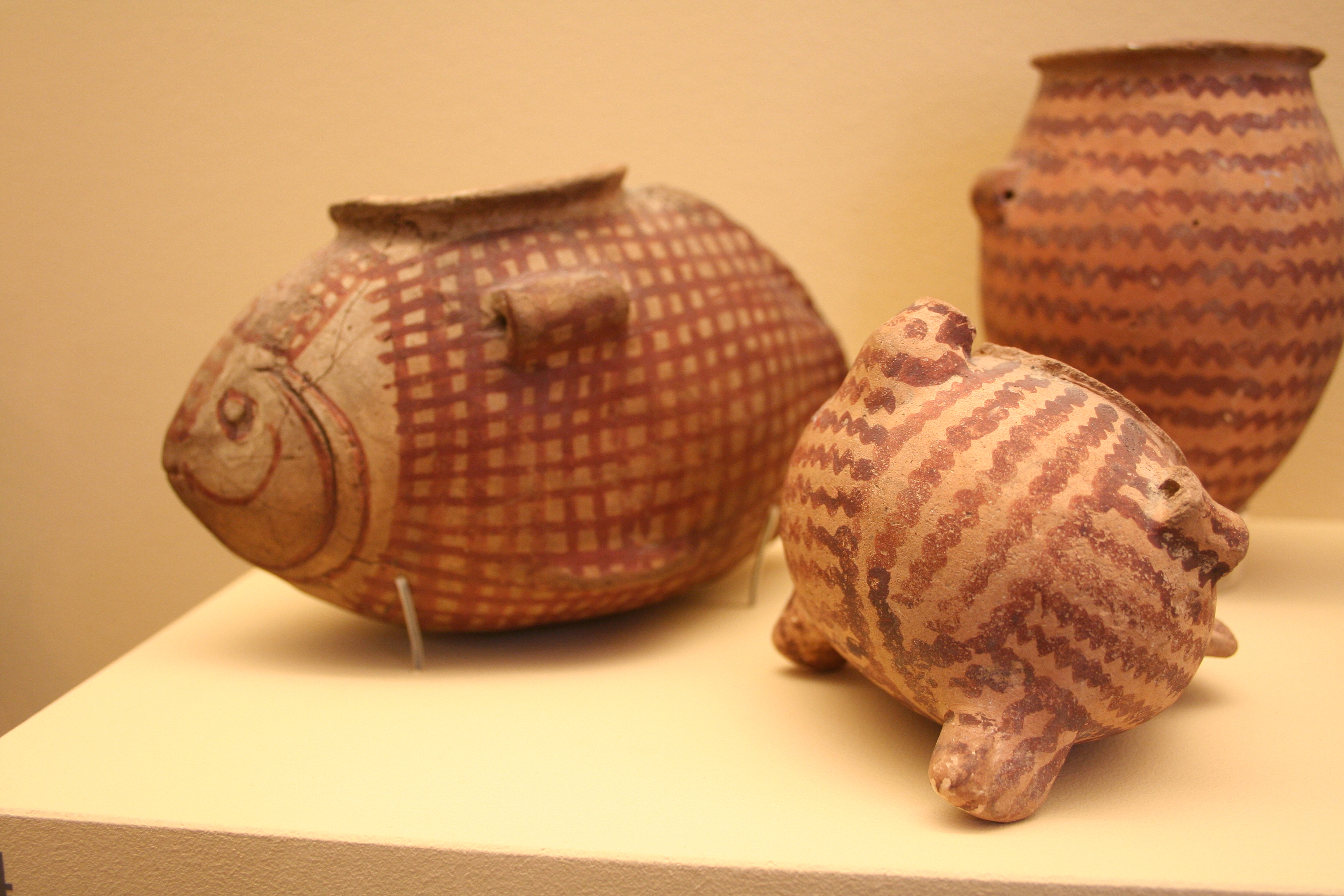 Pottery vessels of the Naqada I period